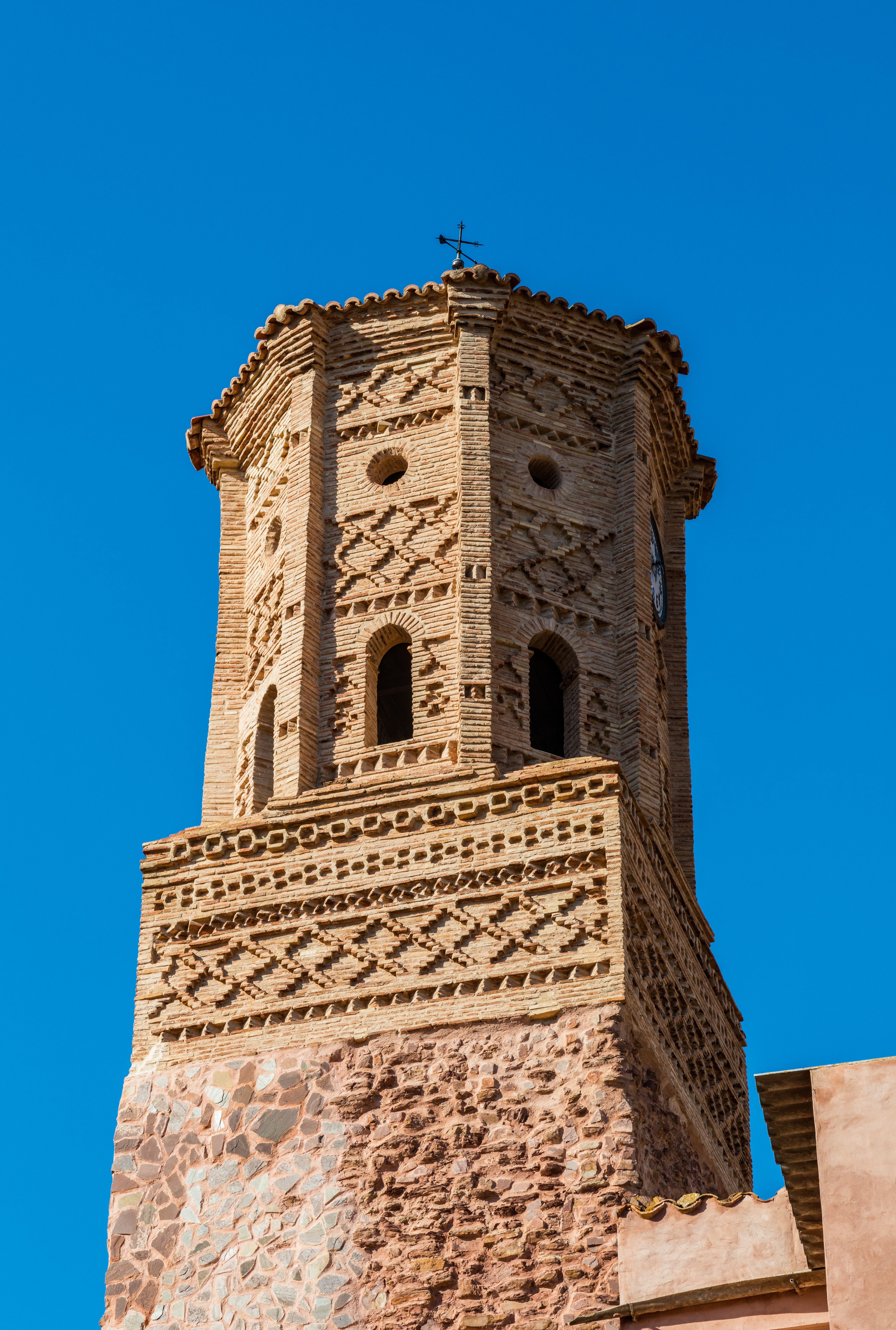 Tower of the church of the Assumption, Mesones de Isuela, Saragossa, Spain